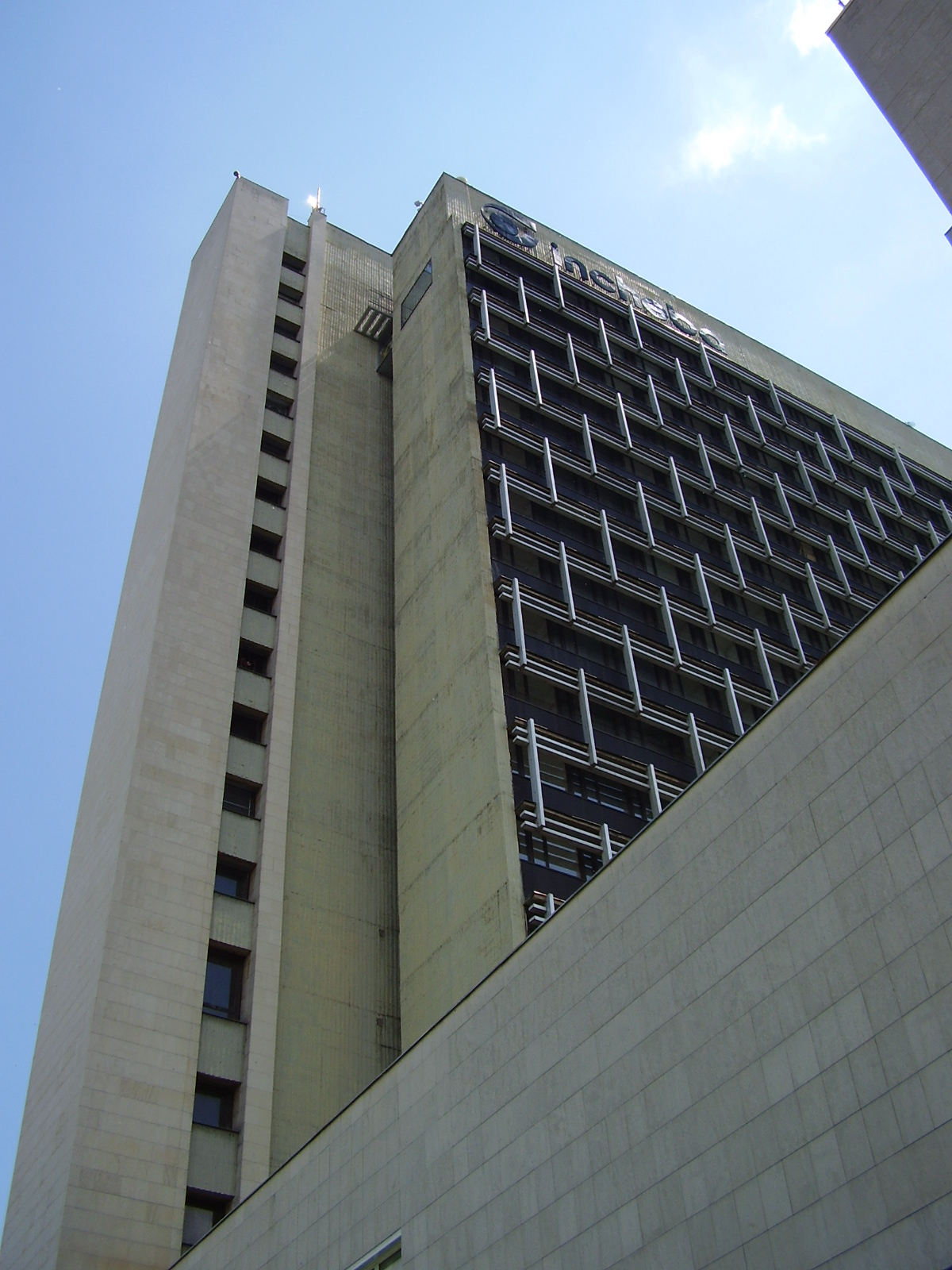 Incheba Tower